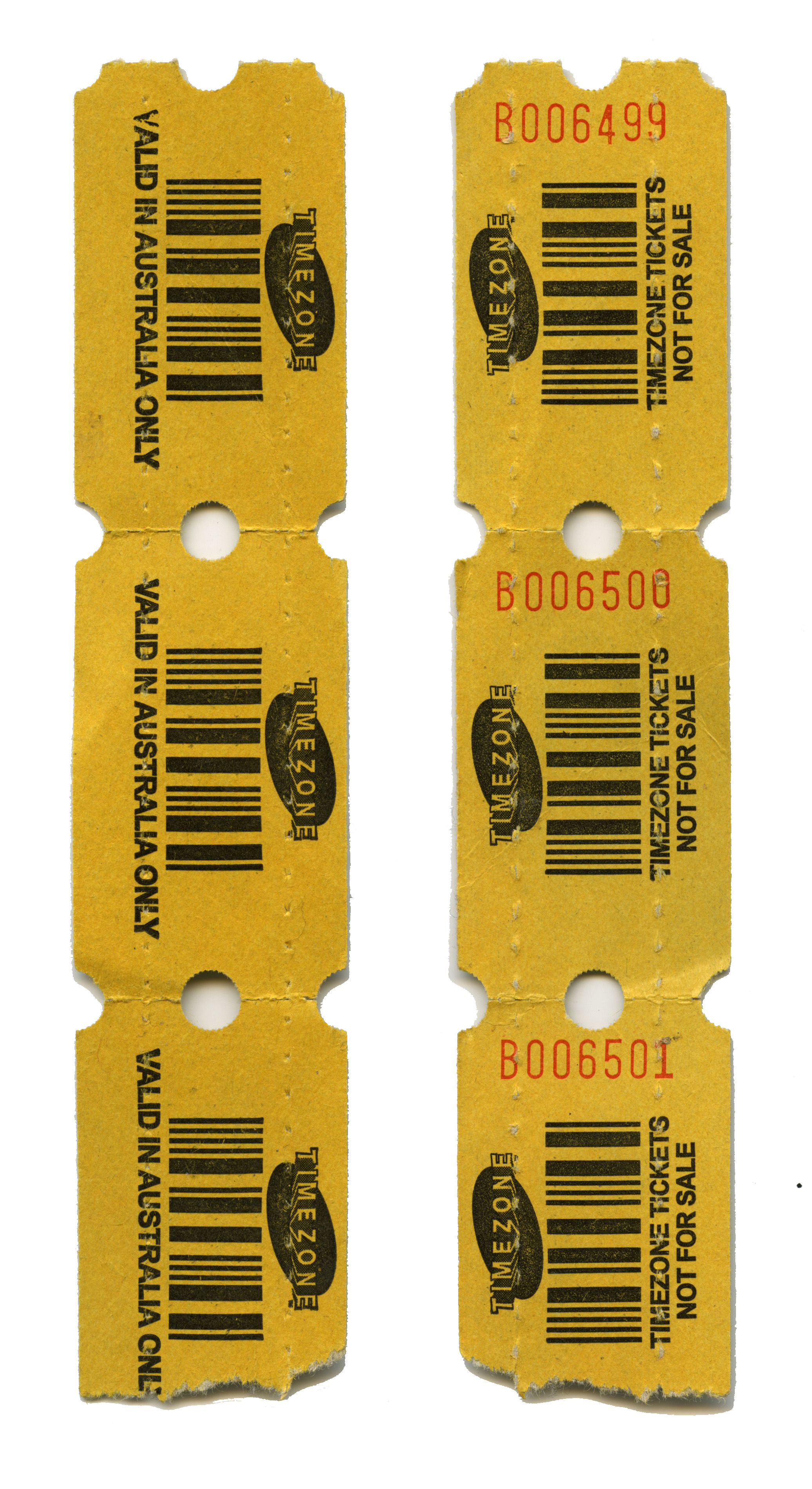 Timezone Arcade Ticket Back and Front